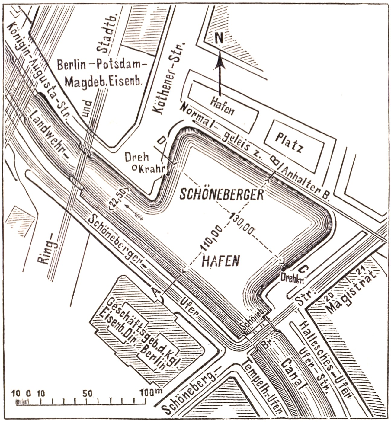 Berlin - Schöneberger Hafen and Königliche Eisenbahndirektion, situation plan